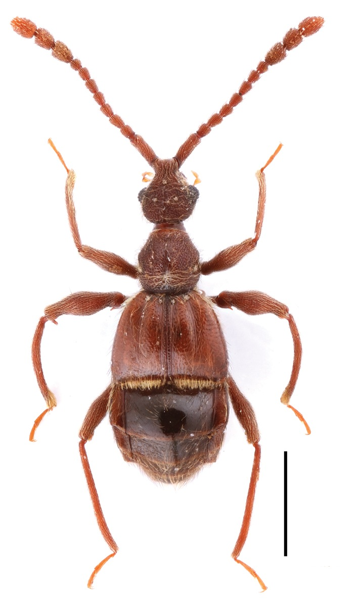 Male habitus of Pselaphodes distincticornis. Scale: 1.0 mm.